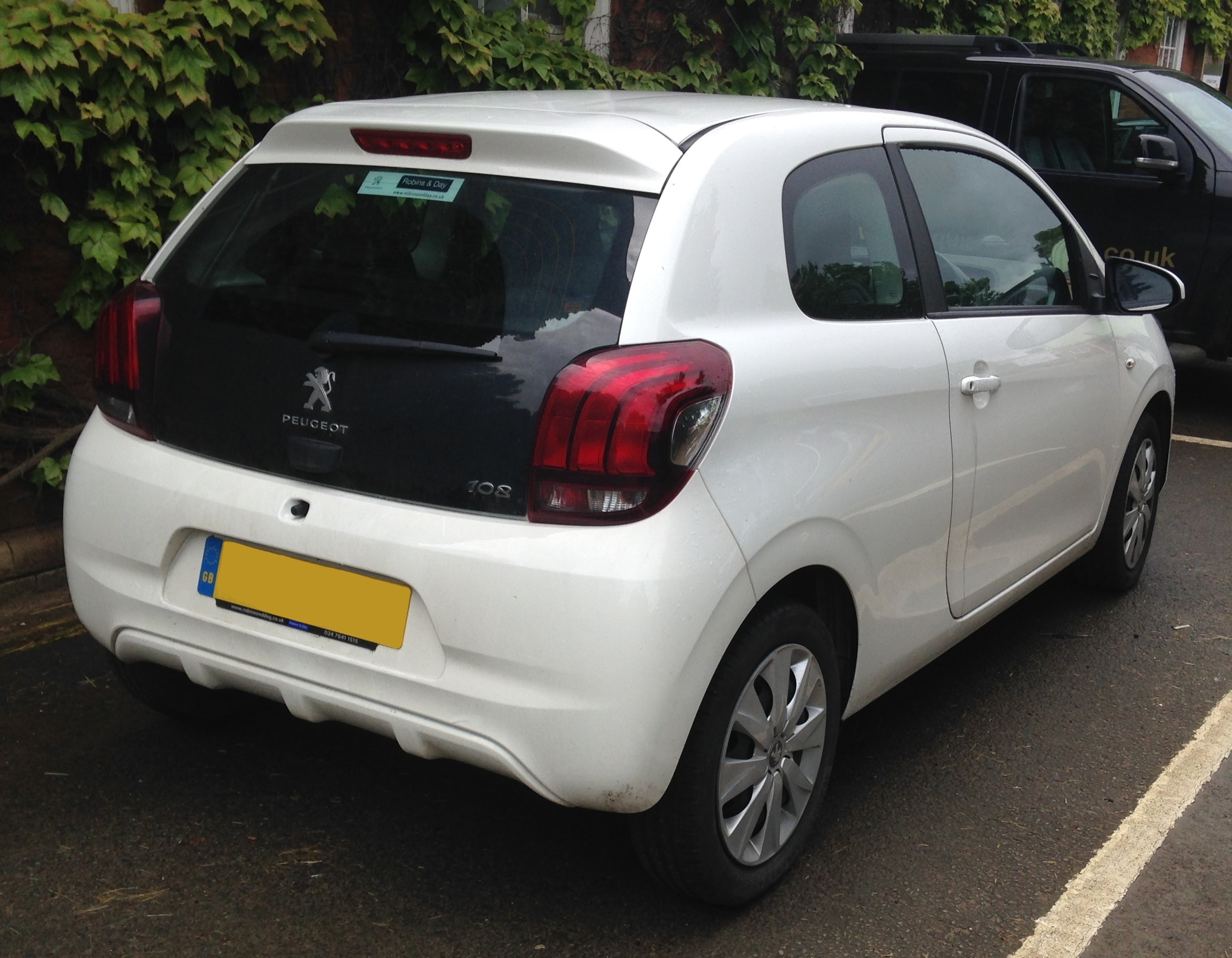 2015 Peugeot 108 Active Taken in Moreton Morrell College, England